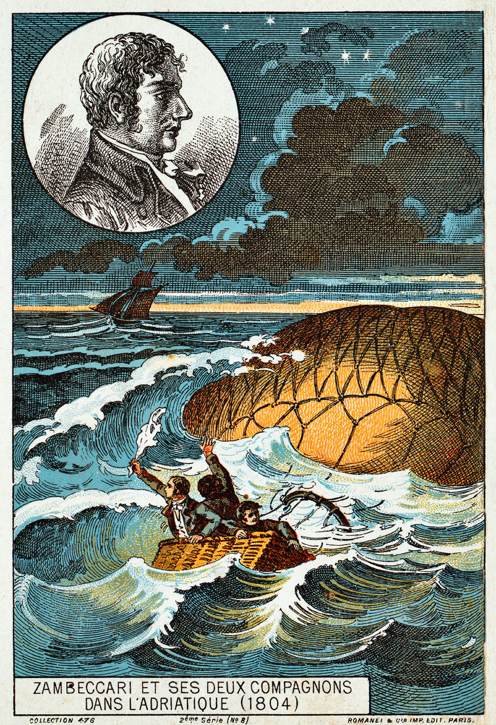 Count Francesco Zambeccari was an Italian aviation pioneer who launched the first (unmanned) balloon in Britain in the year 1783. His later adventures were less successful and Zambeccari and his compagnons had to be rescued from the Adriatic twice, in 1803 and 1804. The count was less lucky in 1812, when his balloon caught fire after an unsuccessful landing attempt and he perished. The eighth card from an uncut set of ten, labeled "Collection 476, 2ème série", issued by Romanet & Cie. in the late 19th Century, to commemorate events in ballooning history from 1795 to 1846. From the Tissandier Collection at the U.S. Library of Congress. More early flight collecting cards | More Tissandier Collection items [PD] This picture is in the public domain.